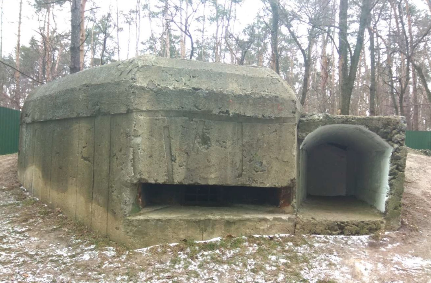 Pillbox 420, Kiev Fortified Region. Front view.